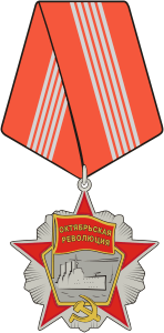 Soviet Order of the October Revolution